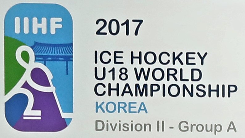 IIHF Ice Hockey Women’s World Championship DIVⅡ Group AKorea vs AustraliaApril 5, 2017Kwandong Hockey Center, Gangneung-si, Gangwon-do